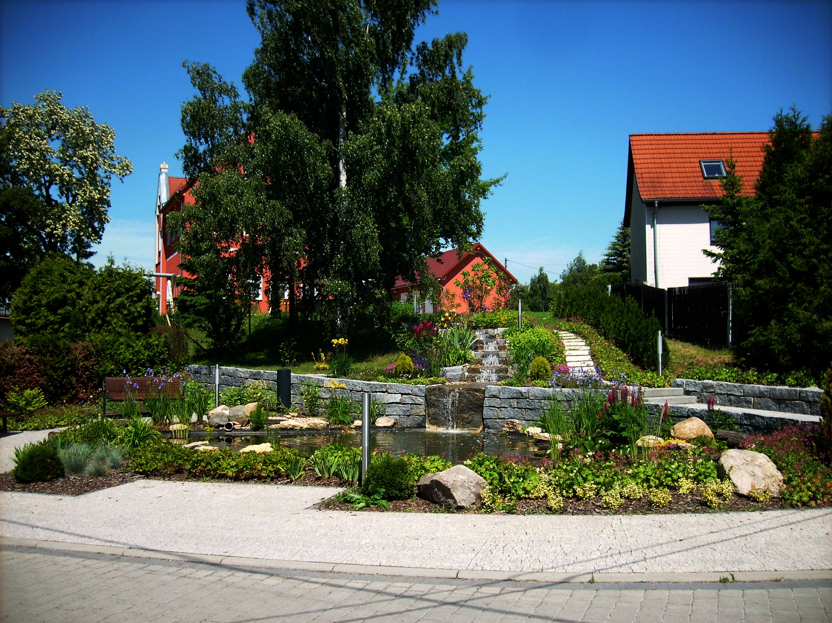 Fountain in Sössen (Lützen, district of Burgenlandkreis, Saxony-Anhalt)